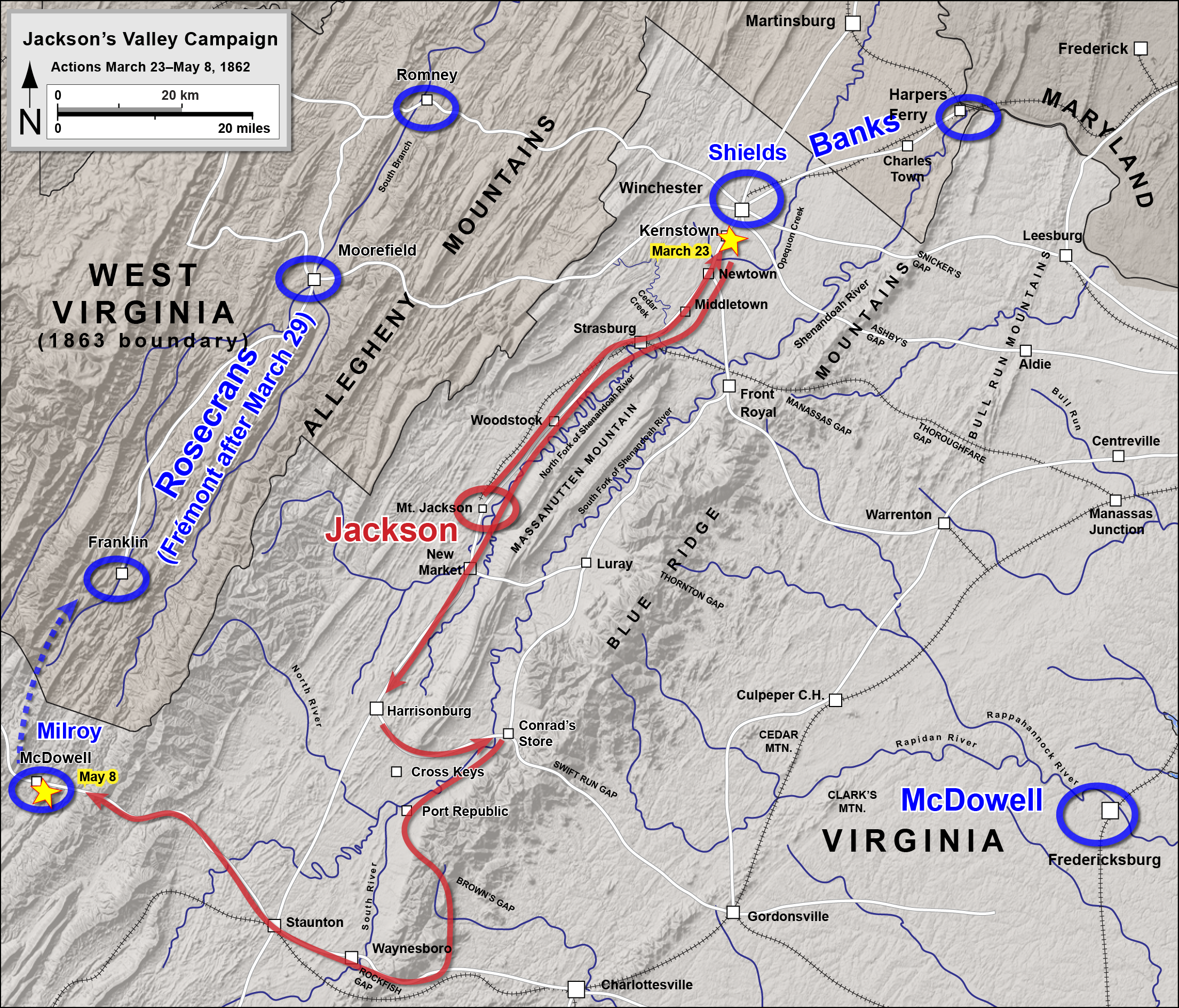 Map 1 of 2 of Jackson's Valley Campaign of the American Civil War. Drawn by Hal Jespersen in Adobe Illustrator CS5. Graphic source file is available at